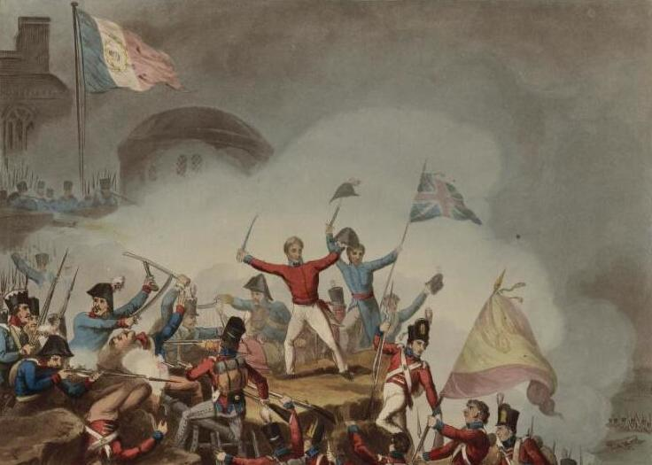 A portrait from the Welsh Portrait Collection at the National Library of Wales. Depicted person: Thomas Picton – Welsh general who served in the British Army